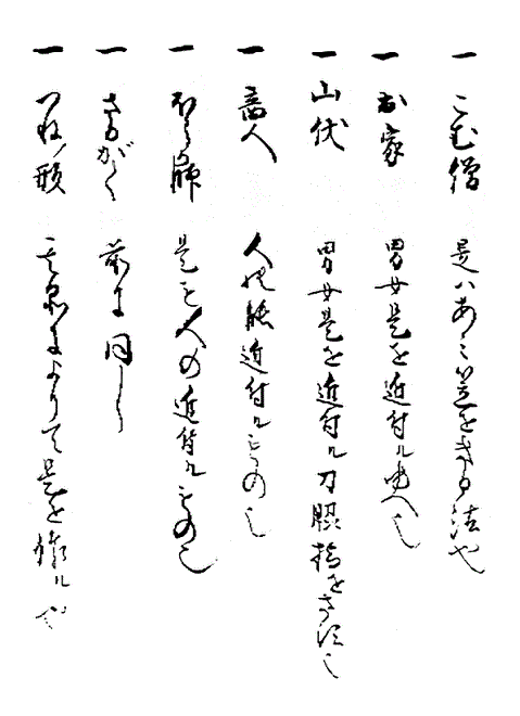 Page from the Shoninki, a ninjutsu manual from 1681 This page gives a list of possible disguises for the ninja